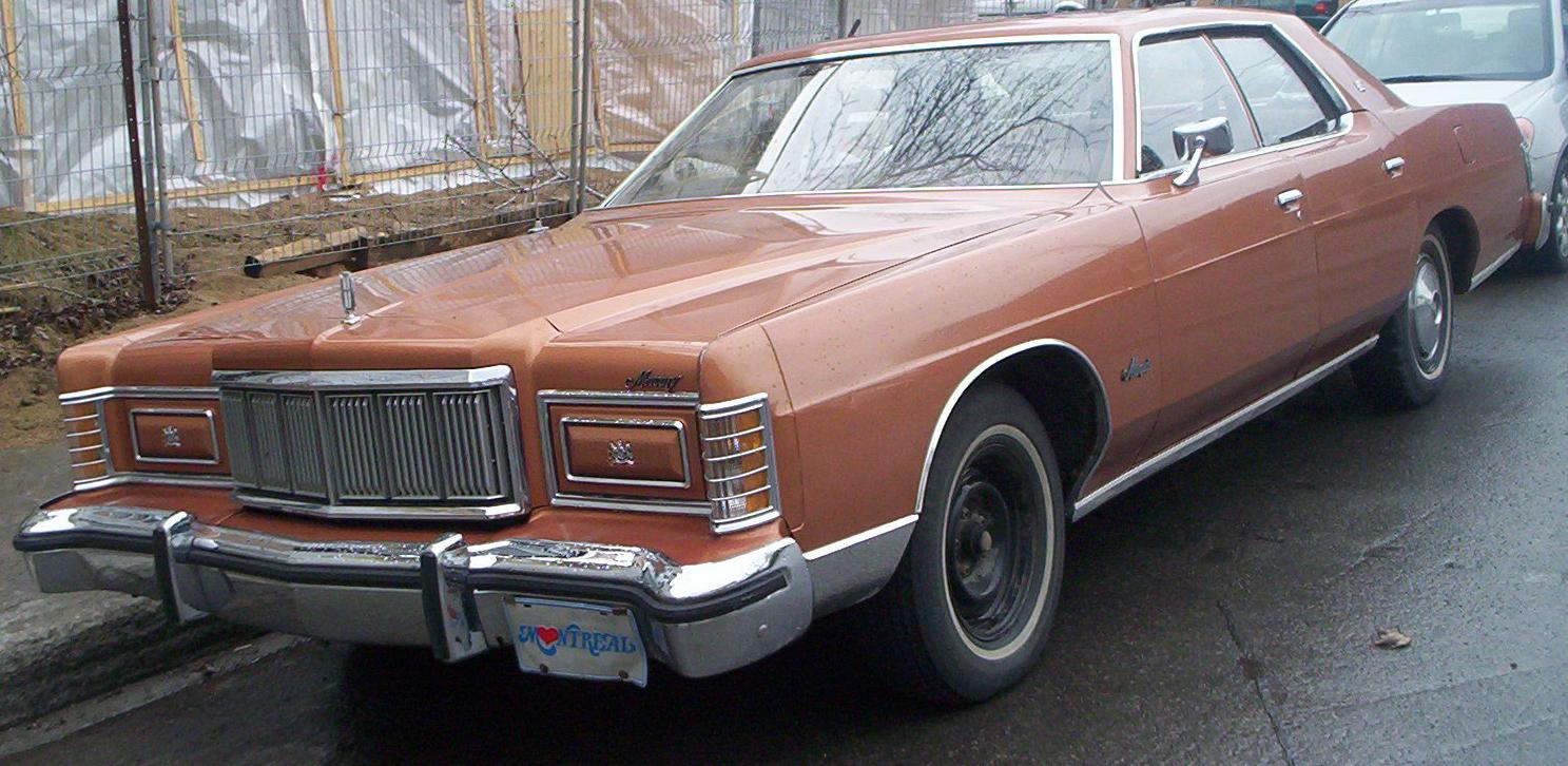 1973-1978 Mercury Marquis photographed in Montreal, Quebec, Canada.